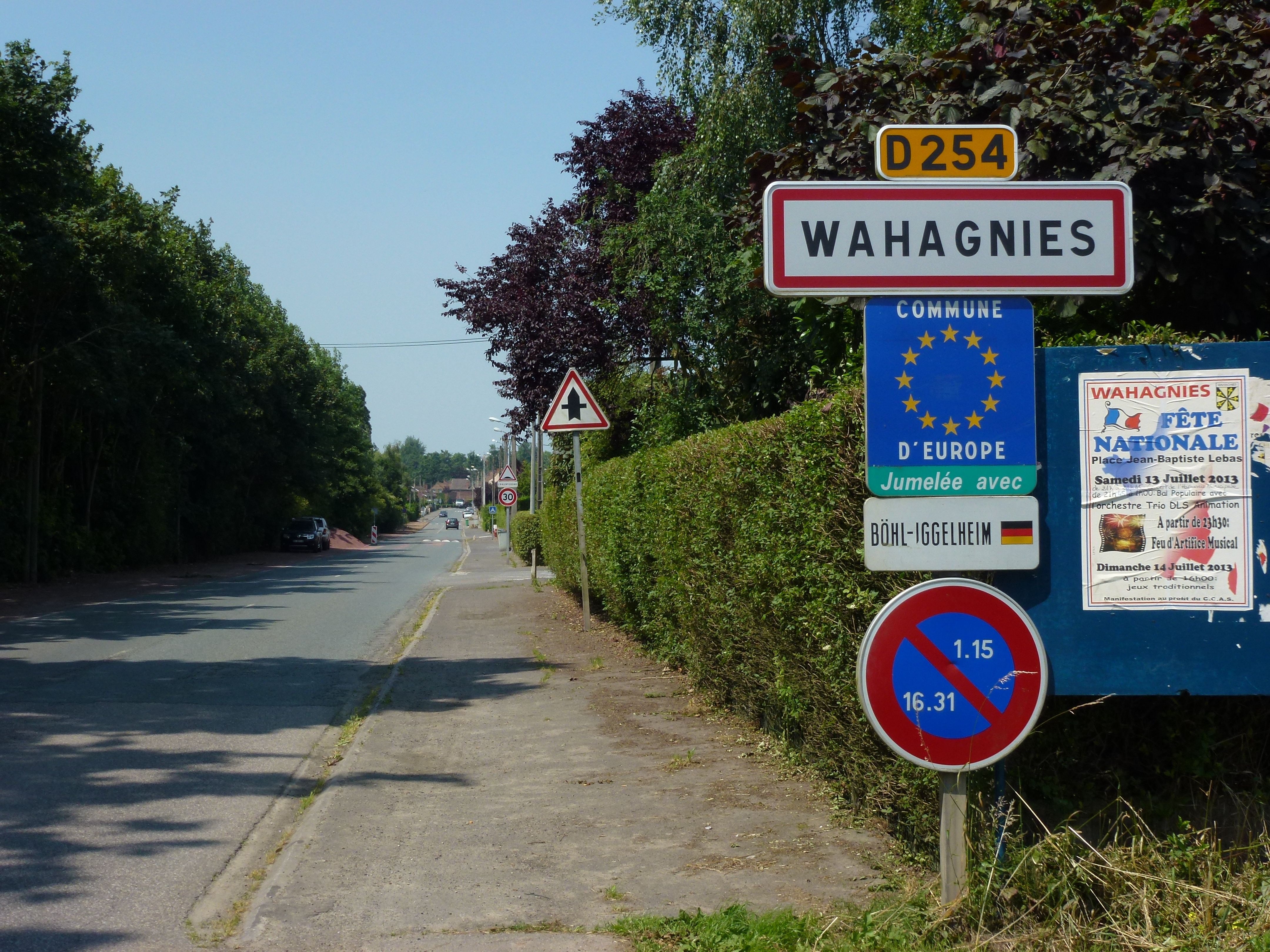 Wahagnies (Nord, Fr) city limit sign